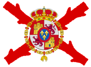 Military flag of Spain, lesser coat of arms, c. 1700-1843